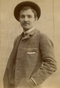 Portrait of Argentine painter Pío Collivadino